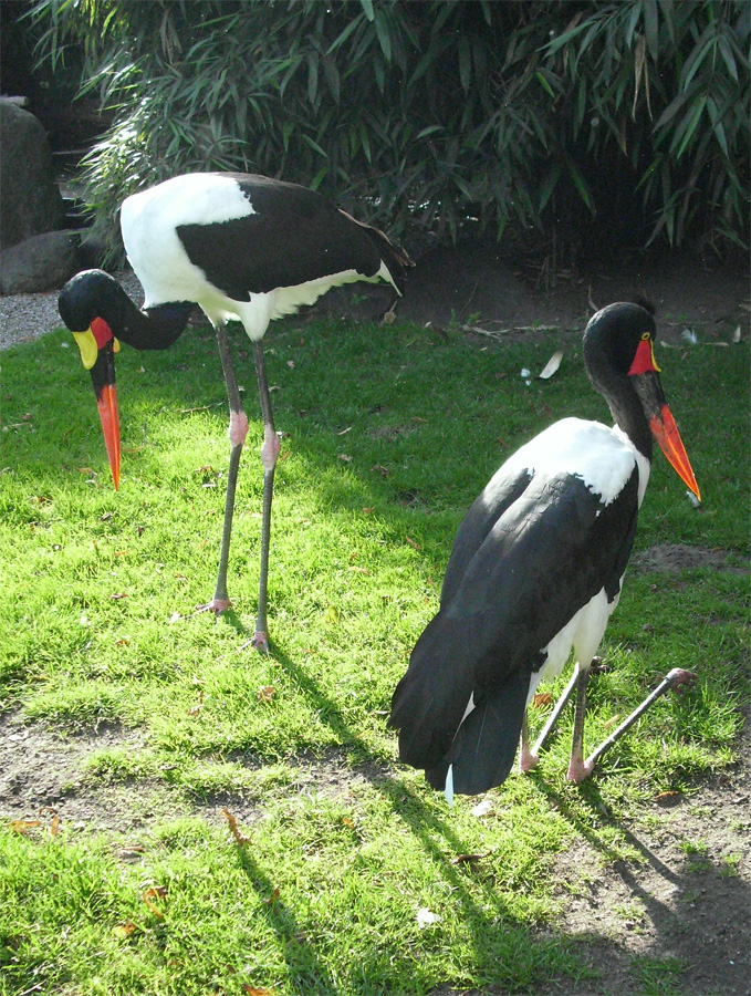 Saddle-billed storks